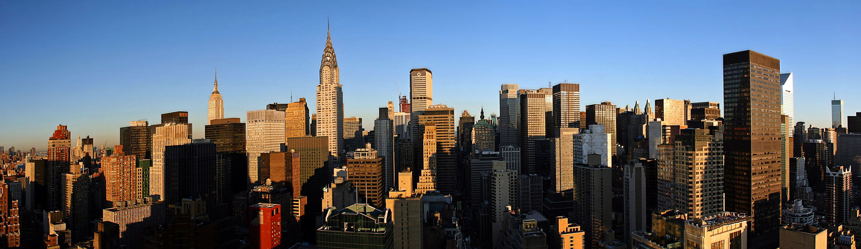 Manhattan, New York City; View from the Millennium UN Plaza Hotel on an early morning.